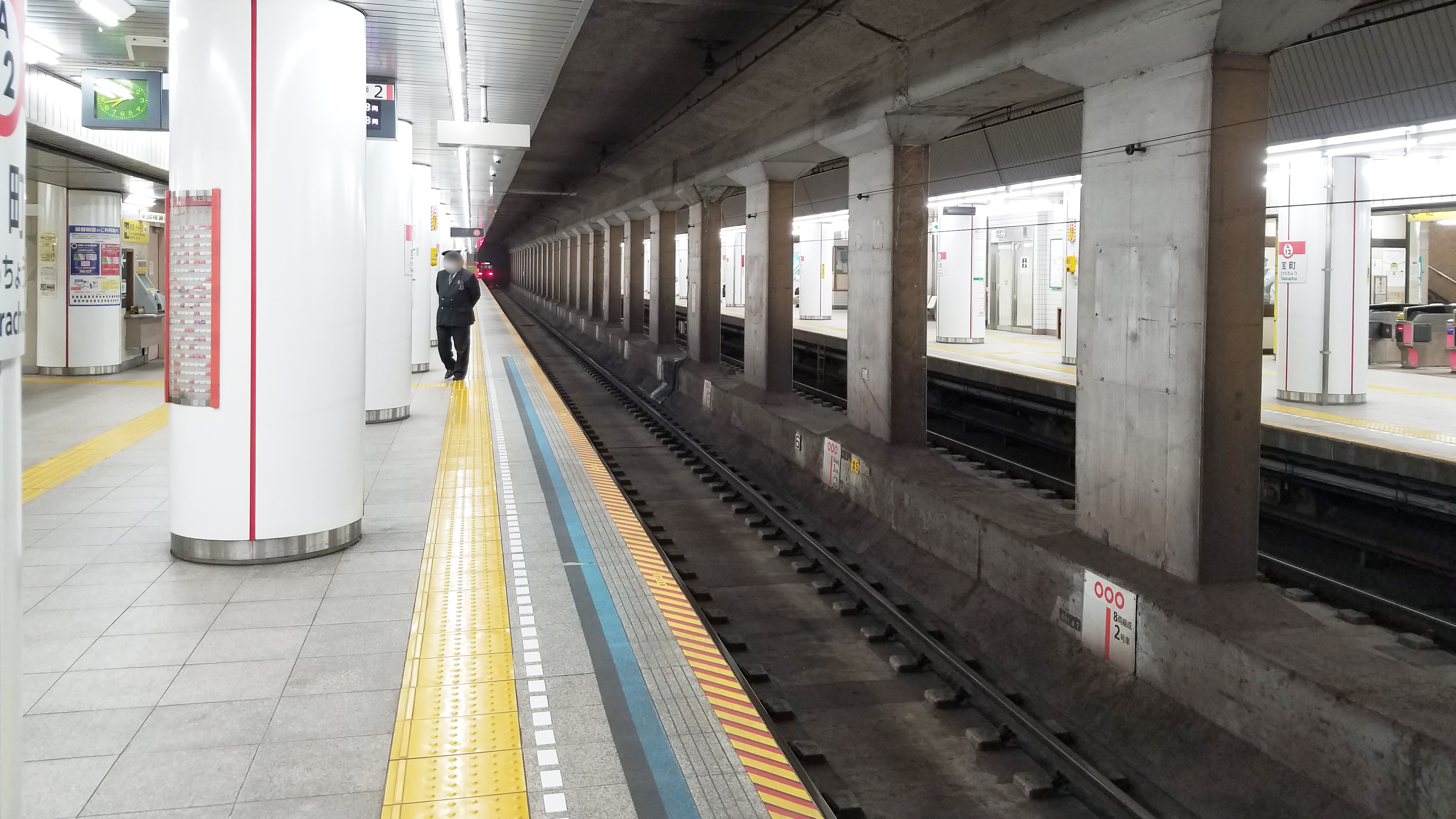 The platforms at Takarachō Station on the Toei Asakusa Line in Chūō city, Tokyo, Japan